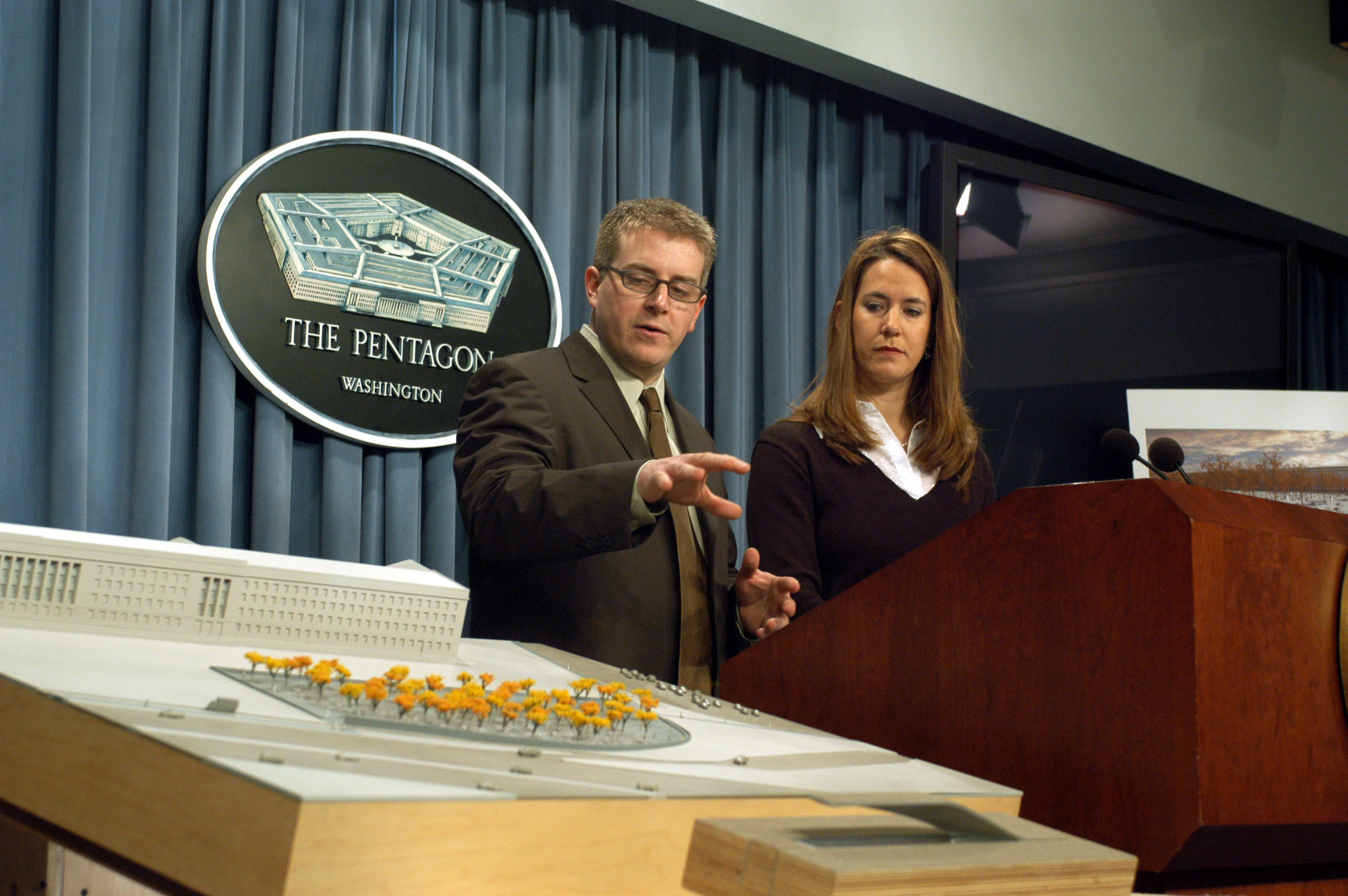 Keith Kaseman (left) and Julie Beckman explain the winning design of the Pentagon Memorial, called "Light Benches", to reporters at a Pentagon press conference on March 3, 2003. The memorial will be built on a 1.93-acre plot on the Pentagon reservation near the spot where the Sept. 11, 2001, terrorist attack occurred on the building. The memorial encompasses the entire memorial site and includes 184 benches with the name of each victim engraved into the face of the bench. The benches are to be comprised of cast, clear, anodized aluminum polyester composite matrix set on an eight-inch concrete pad for stabilization. Each bench will be positioned according to the age of the victim, progressing from the youngest, age 3, to the oldest, age 71. Each memorial bench will have a glowing light pool set underneath. The site also will have clusters of trees throughout to provide shading and a more intimate atmosphere. The estimated cost to build the memorial is between $4.9 million and $7.4 million. Taxpayer funds will not be used for the construction of this project.